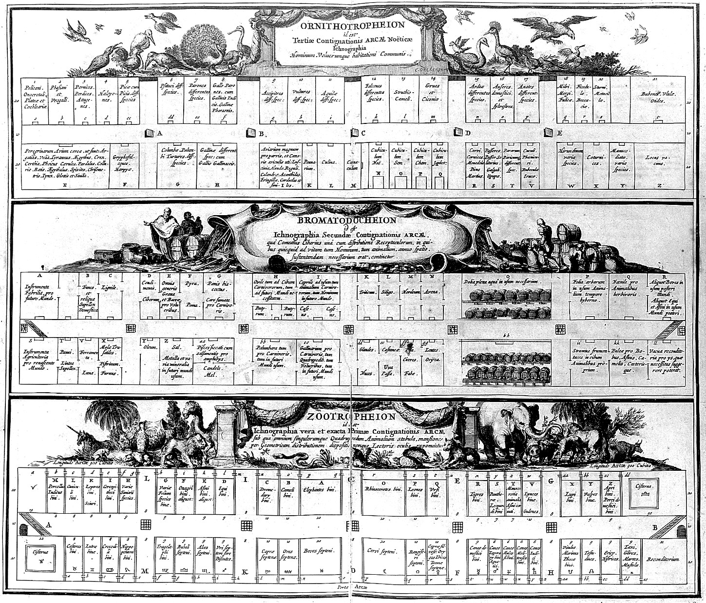 Arrangement inside ark Rare Books Keywords: Athanasius Kircher